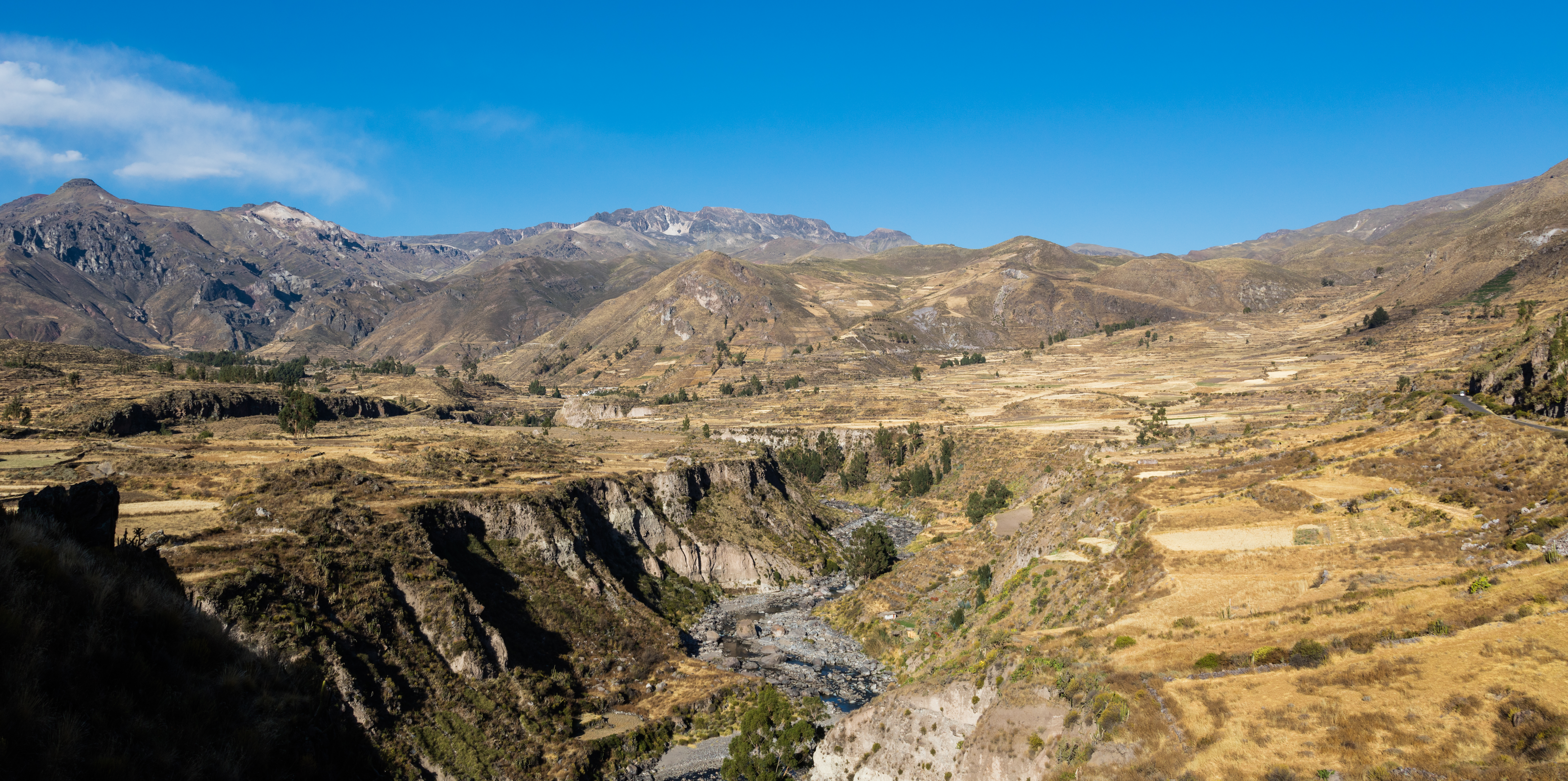 Colca Valley, Perú